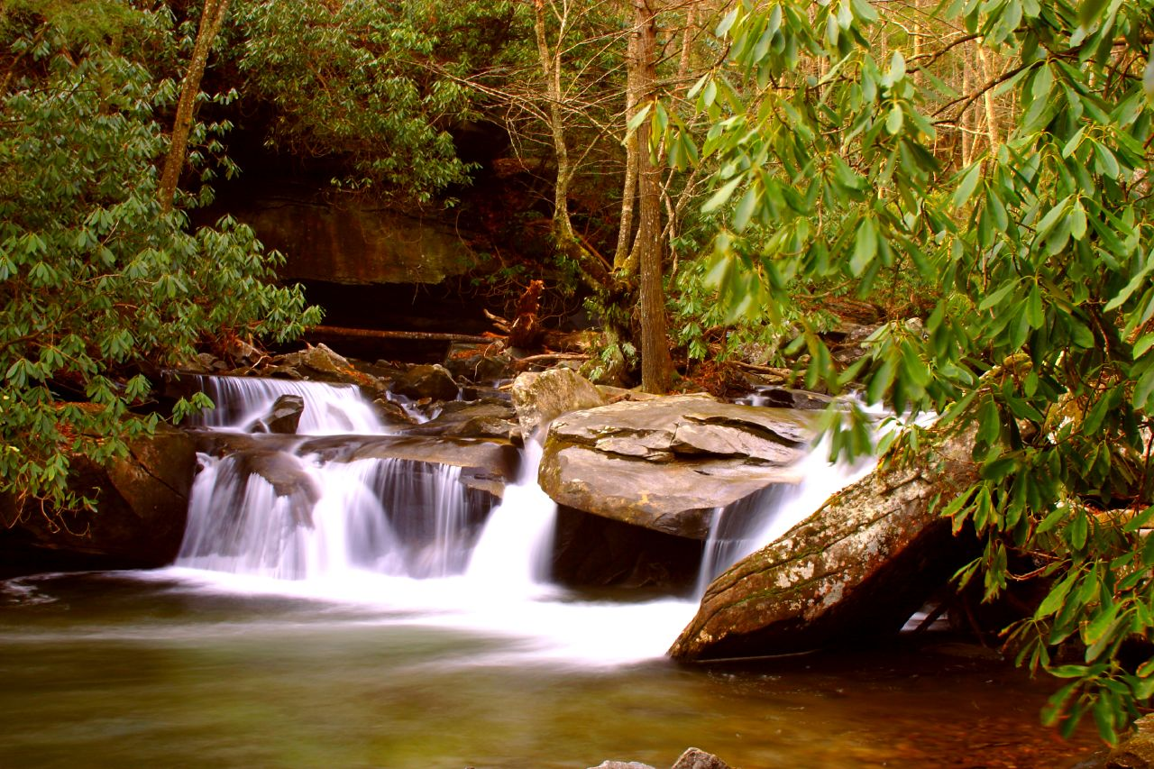 Davidson River, Transylvania County, North Carolina, USA.